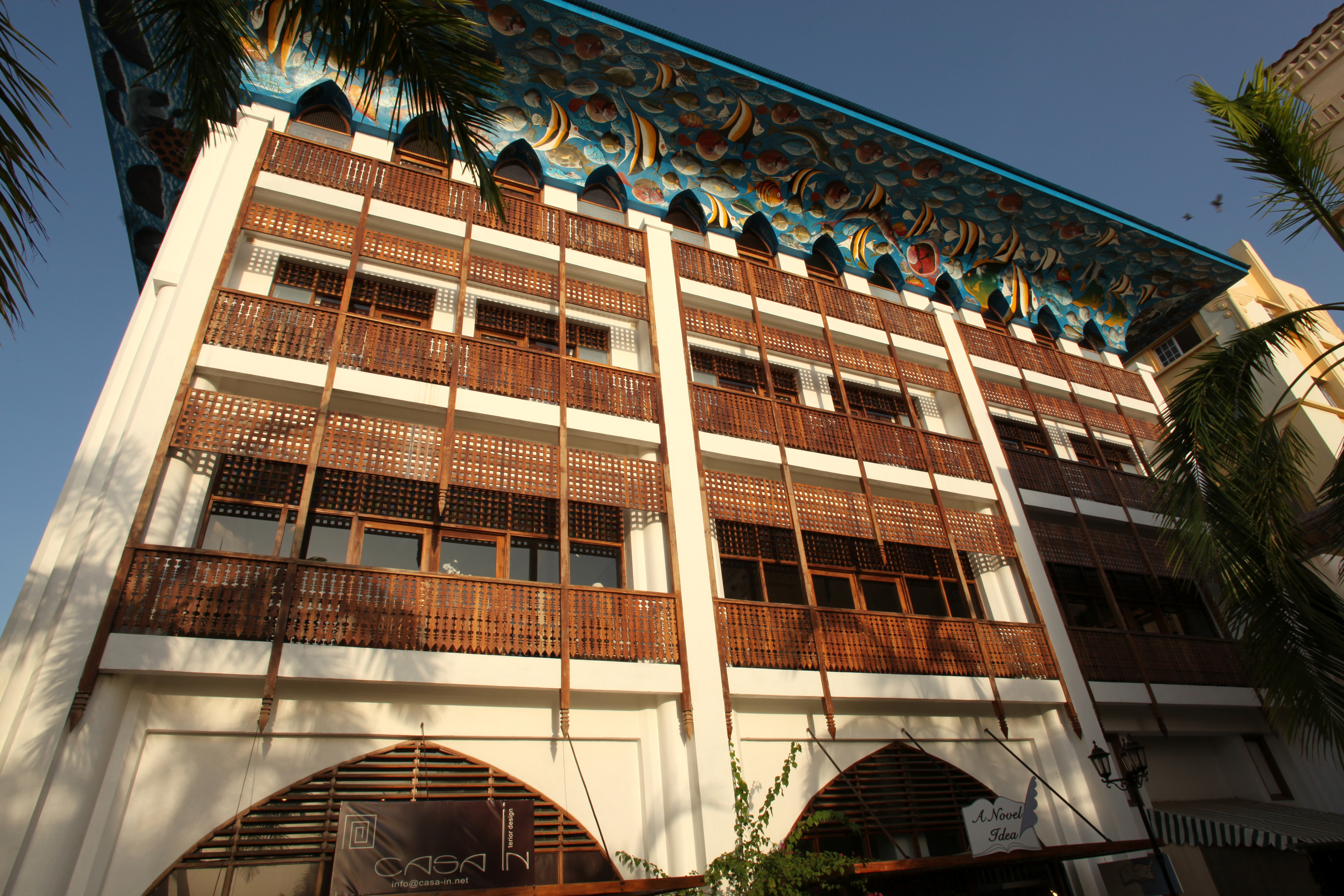 Tingatinga at the Slipway